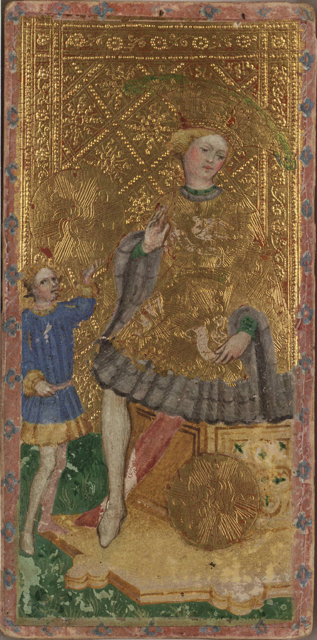 King of Coins (Diamonds) from the Visconti tarot deck